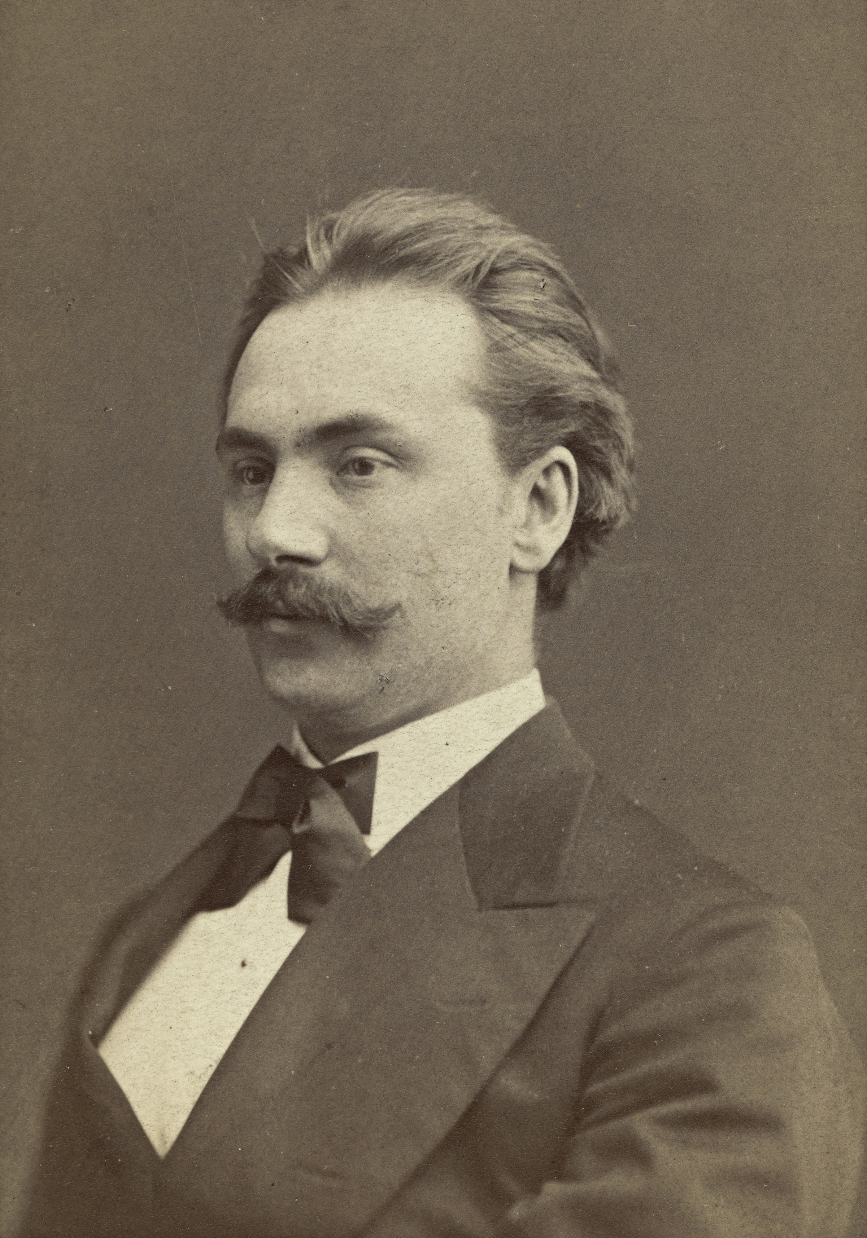 Dato / Date: ukjent / unknown Fotograf / Photographer: Claus Peter Knudsen (1826–1896) Alternative namesClaus KnudsenDescriptionNorwegian photographerDate of birth/death17 September 18262 April 1896Location of birth/deathTrondheimOsloAuthority control : Q10942773 KulturNav: 109e69f8-4125-4012-a694-82008d152af8 Digital kopi av original / Digital copy of original: sv/hv papirpositiv, visittkortportrett Eier / Owner Institution: Nasjonalbiblioteket / National Library of Norway Lenke / Link: Bildesignatur / Image Number: blds_08680